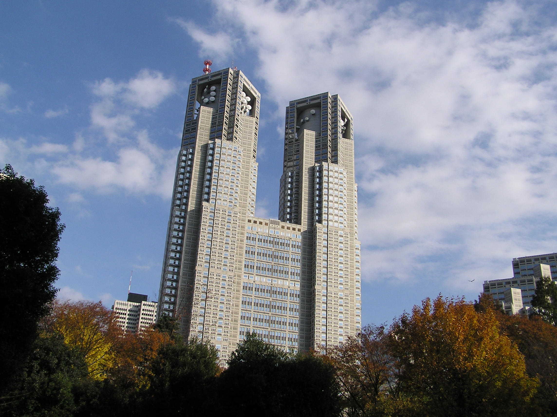 Tokyo Metropolitan Goverment Building No.1 (東京都庁 第一本庁舎)